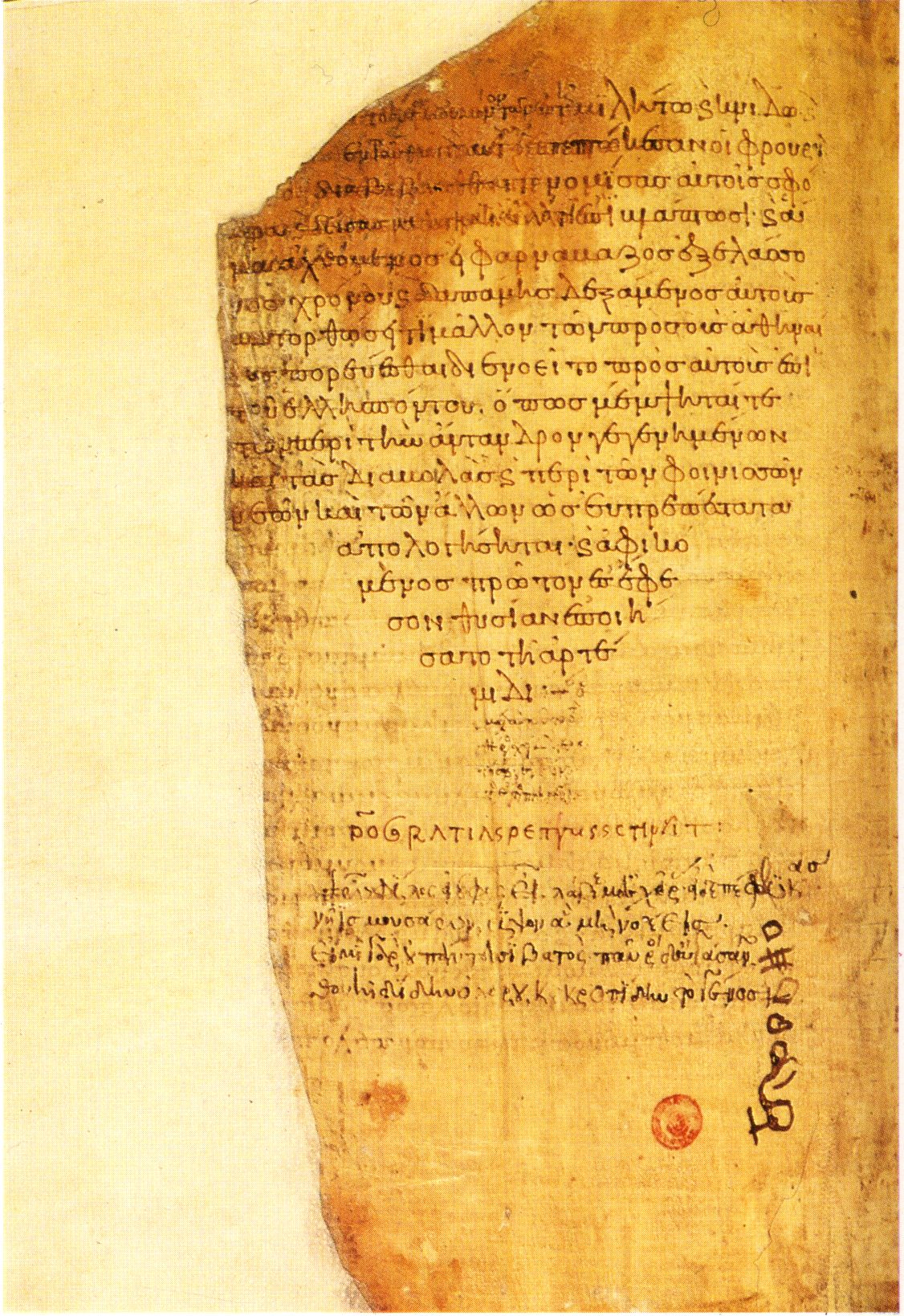 The eraliest extant manuscript of Thucydides (ms. C). Florence, Biblioteca Medicea Laurenziana, Plut. 69.2, fol. 513v.